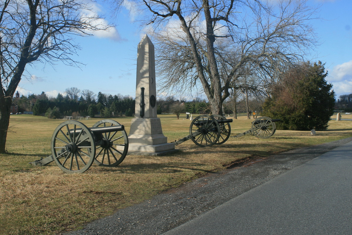 13th New York ind. light battery (Weeler's battery) monument at Gettysburg battlefield